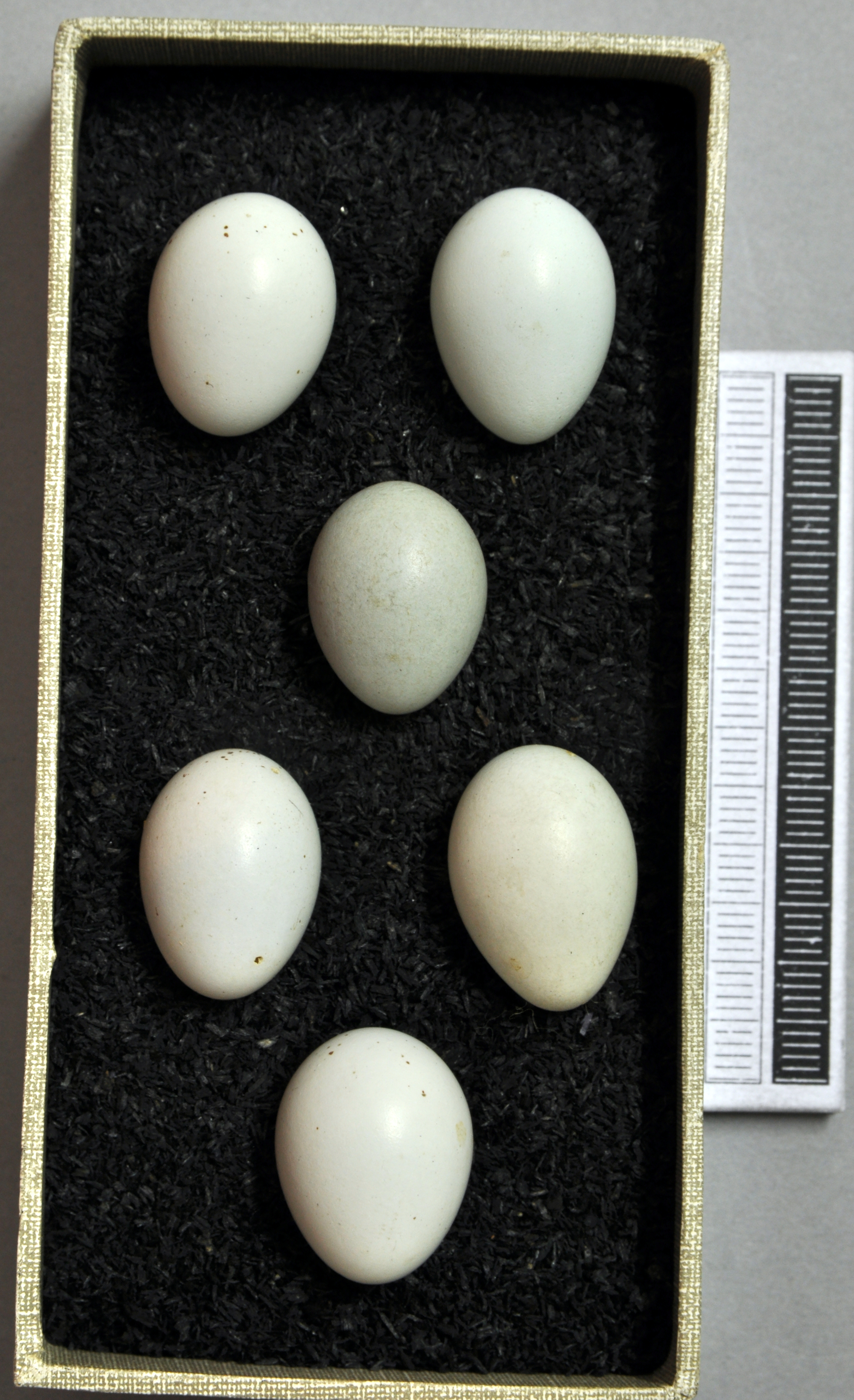 Northern wheatear Oenanthe oenanthe , egg, Coll. Museum Wiesbaden